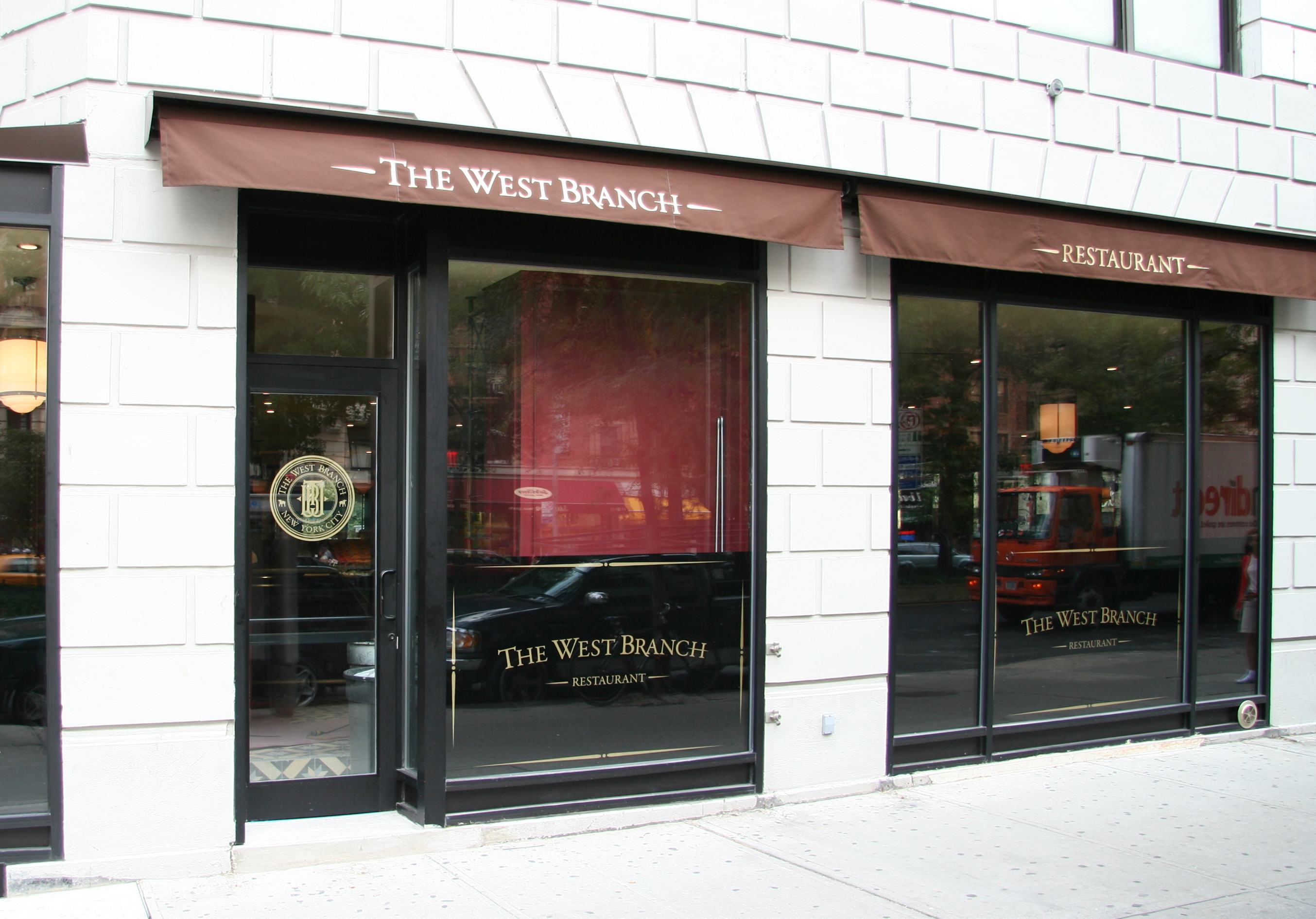 The West Bank Restaurant - New Yoork